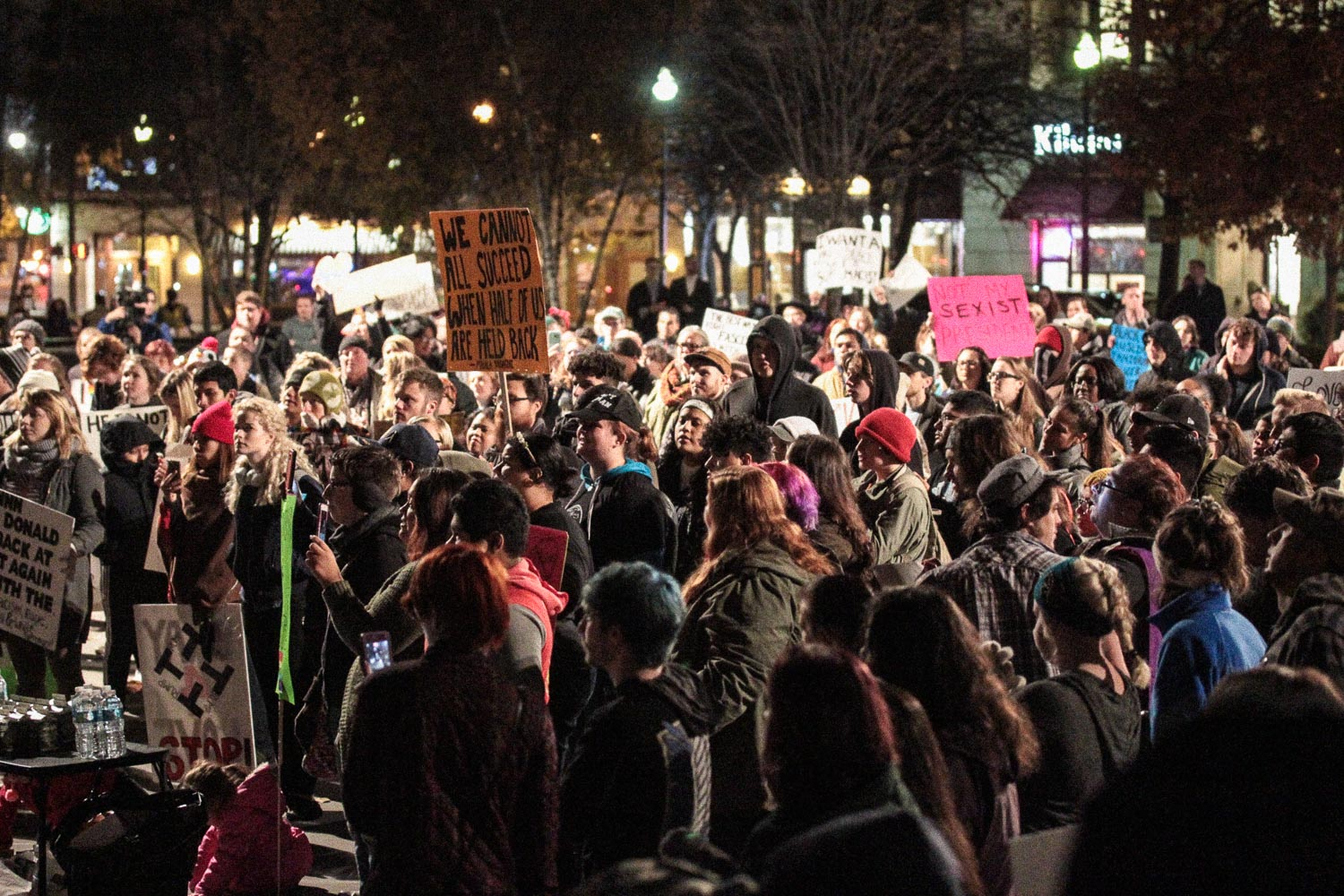 2nd #notmypresident Rally Grand Rapids Rally November 12, 2016 16